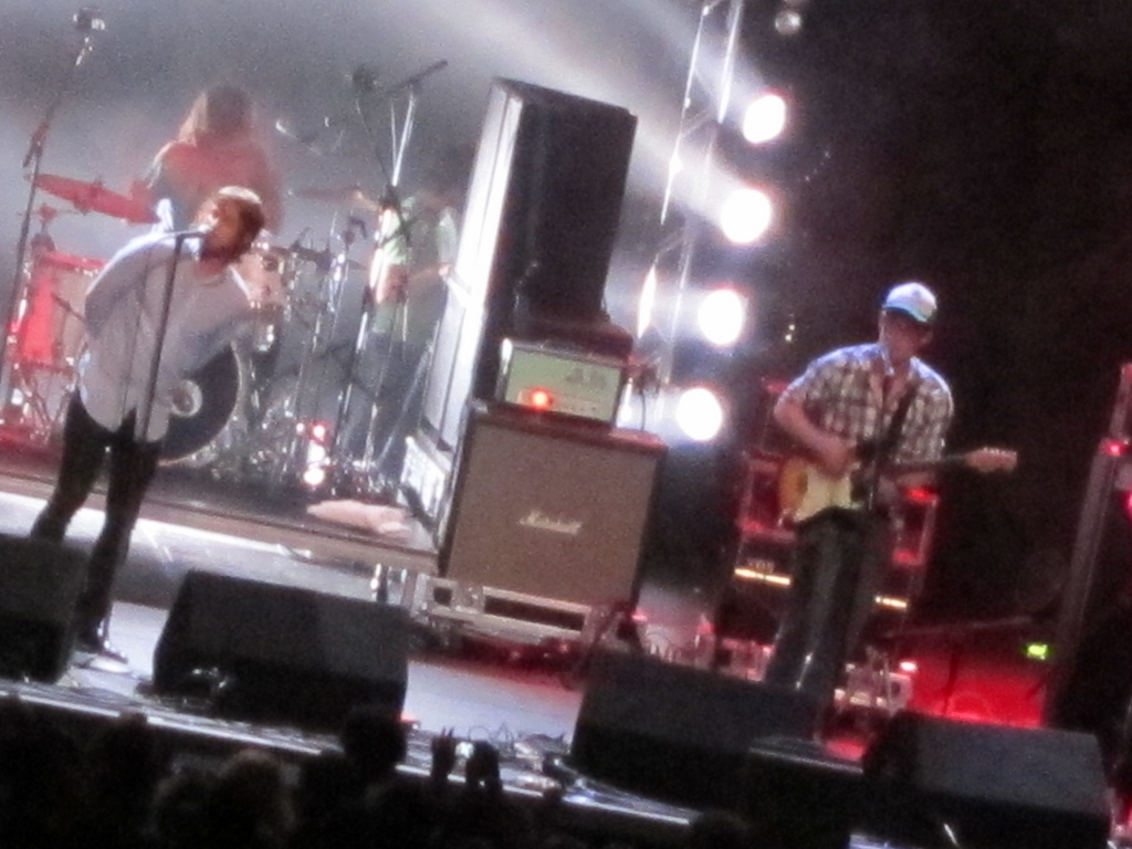 New Zealand rock band The Checks performing at the Homegrown music festival in Wellington, New Zealand on 18 February 2012